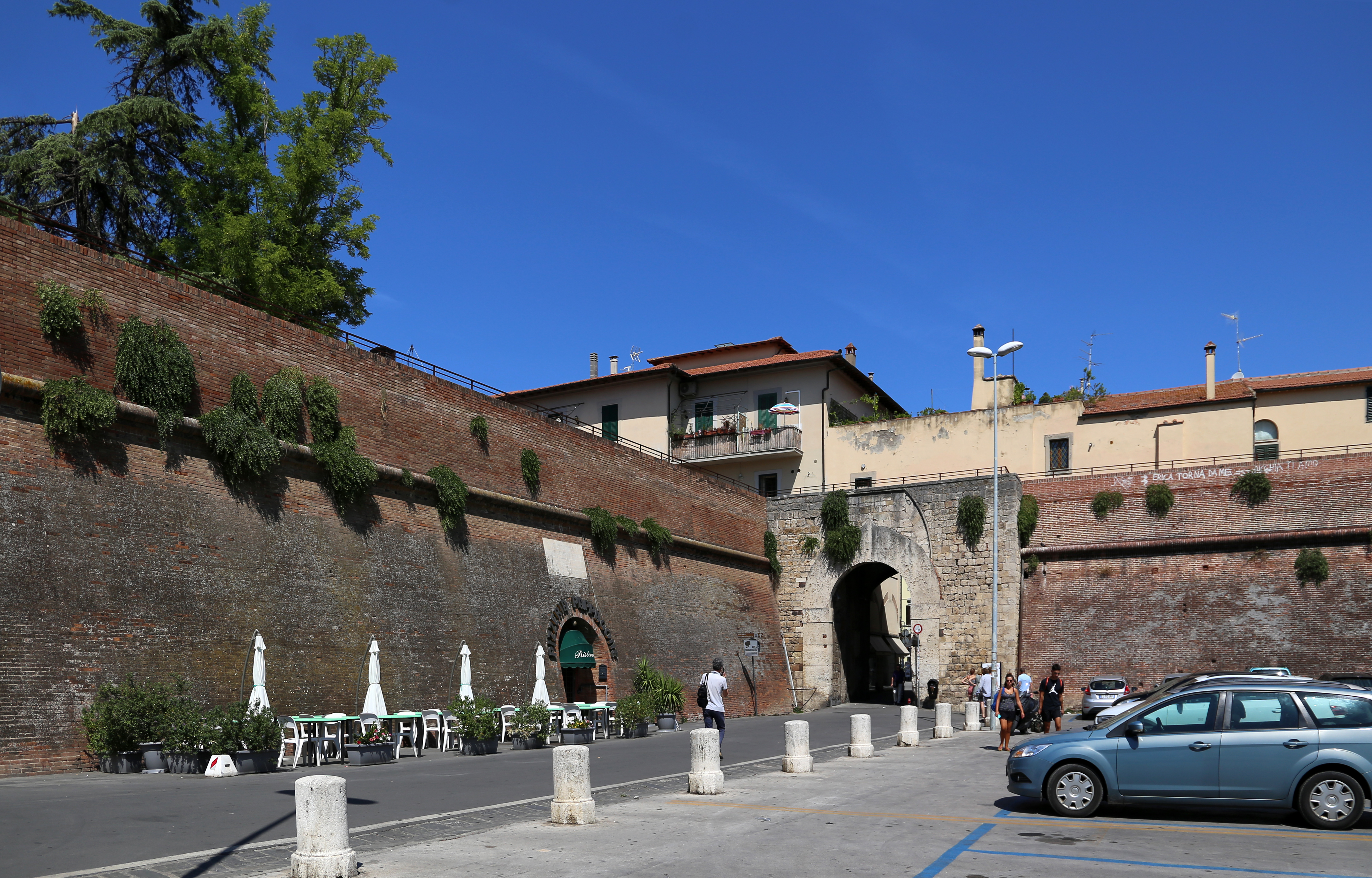 Buildings in Grosseto